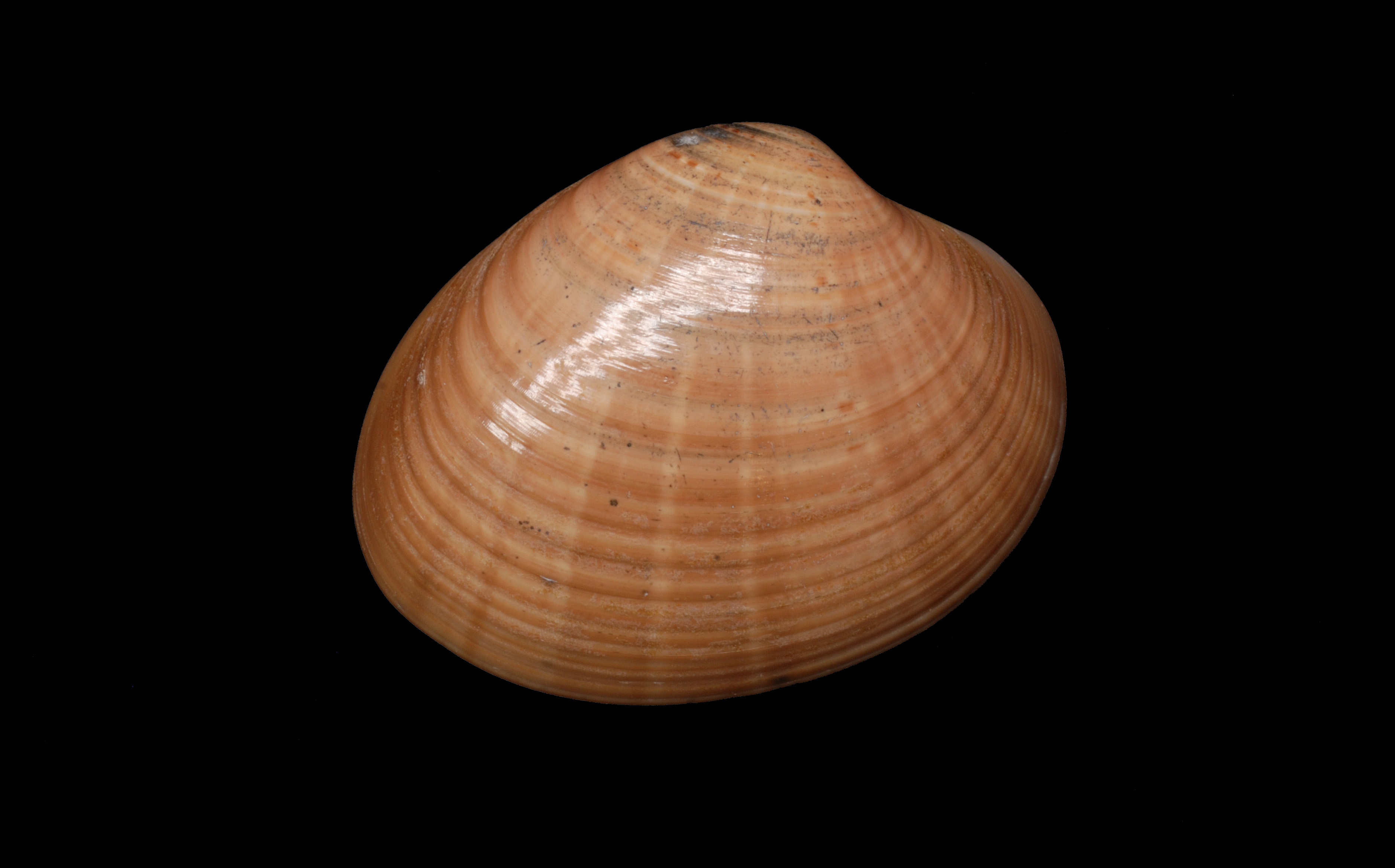 Callista chione, Cavallino, Italy